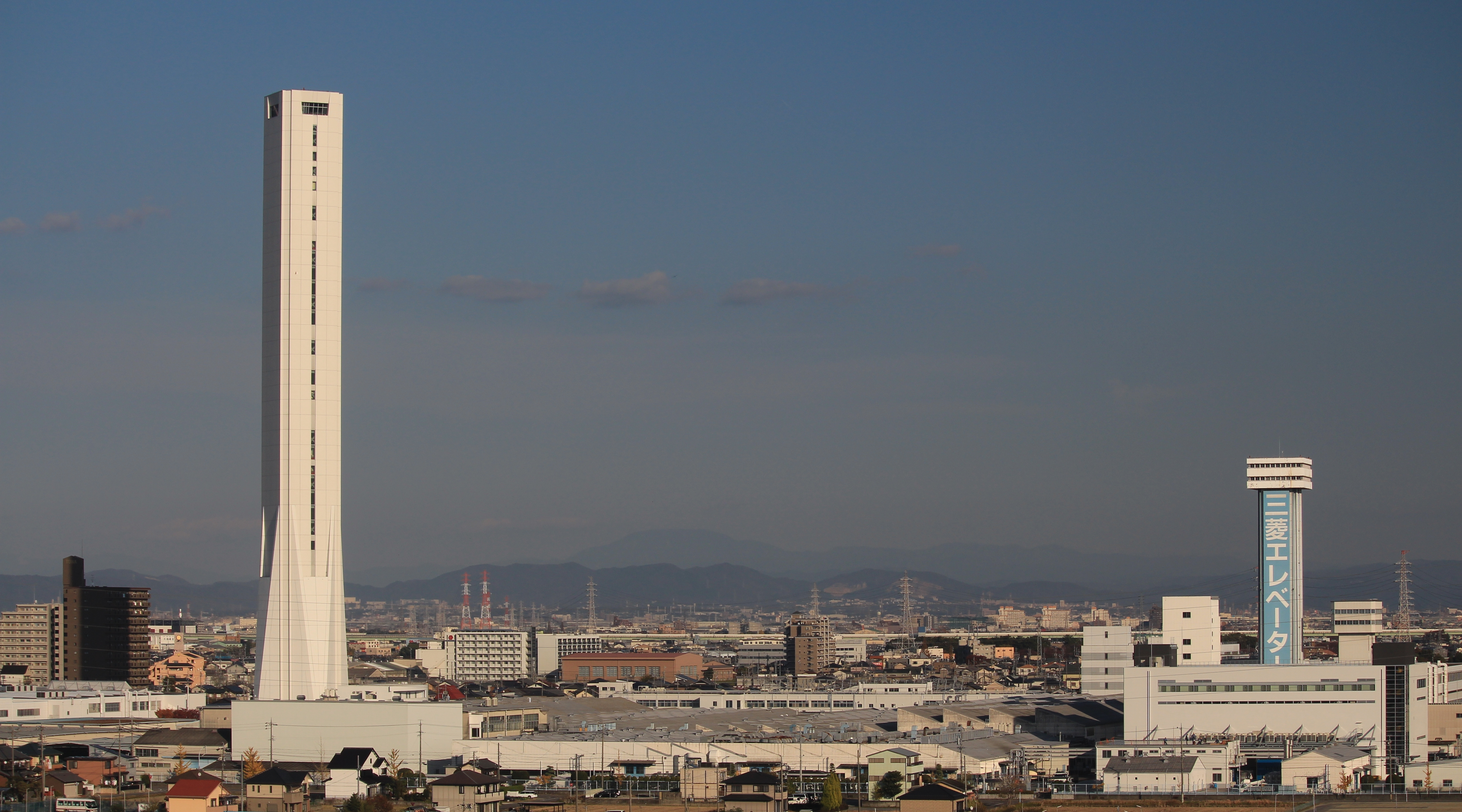 Mitsubishi Electric in Inazawa, Aichi prefecture, Japan.